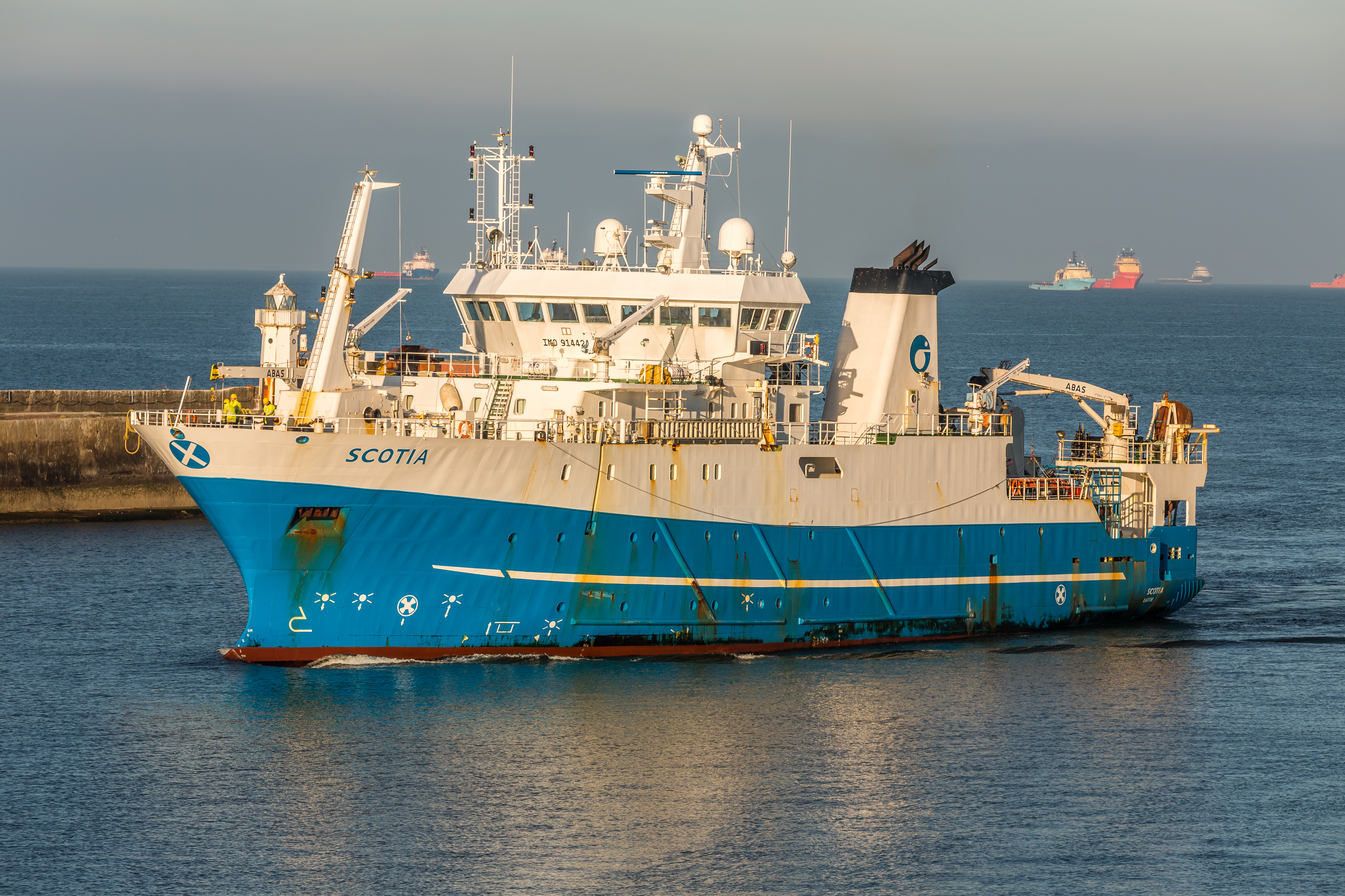 IMO: 9144249 MMSI: 234973000 Call Sign: MXHR6 Flag: United Kingdom (GB) AIS Type: Other Gross Tonnage: 2619 Deadweight: 850 t Length × Breadth: 68.6m × 15.02m Year Built: 1998 Status: Active Fisheries research vessel